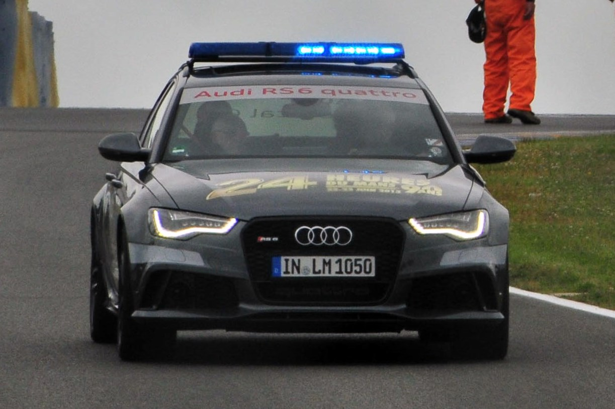 Le Mans 2013 (107 of 631)